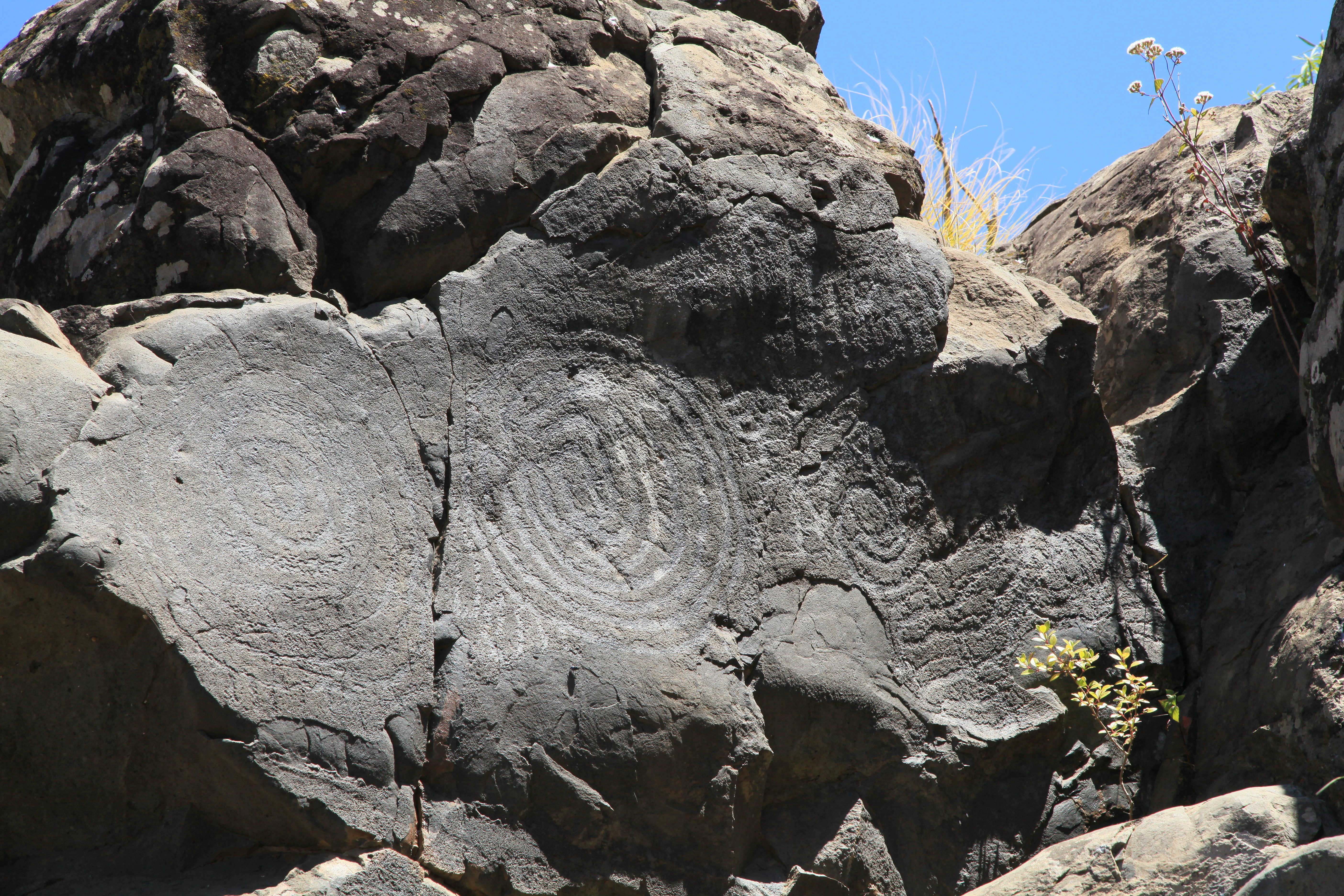 Grabados rupestres de El Cementerio, Barranco de Tenisque in El Paso (La Palma), La Palma, Canary Island, Spain